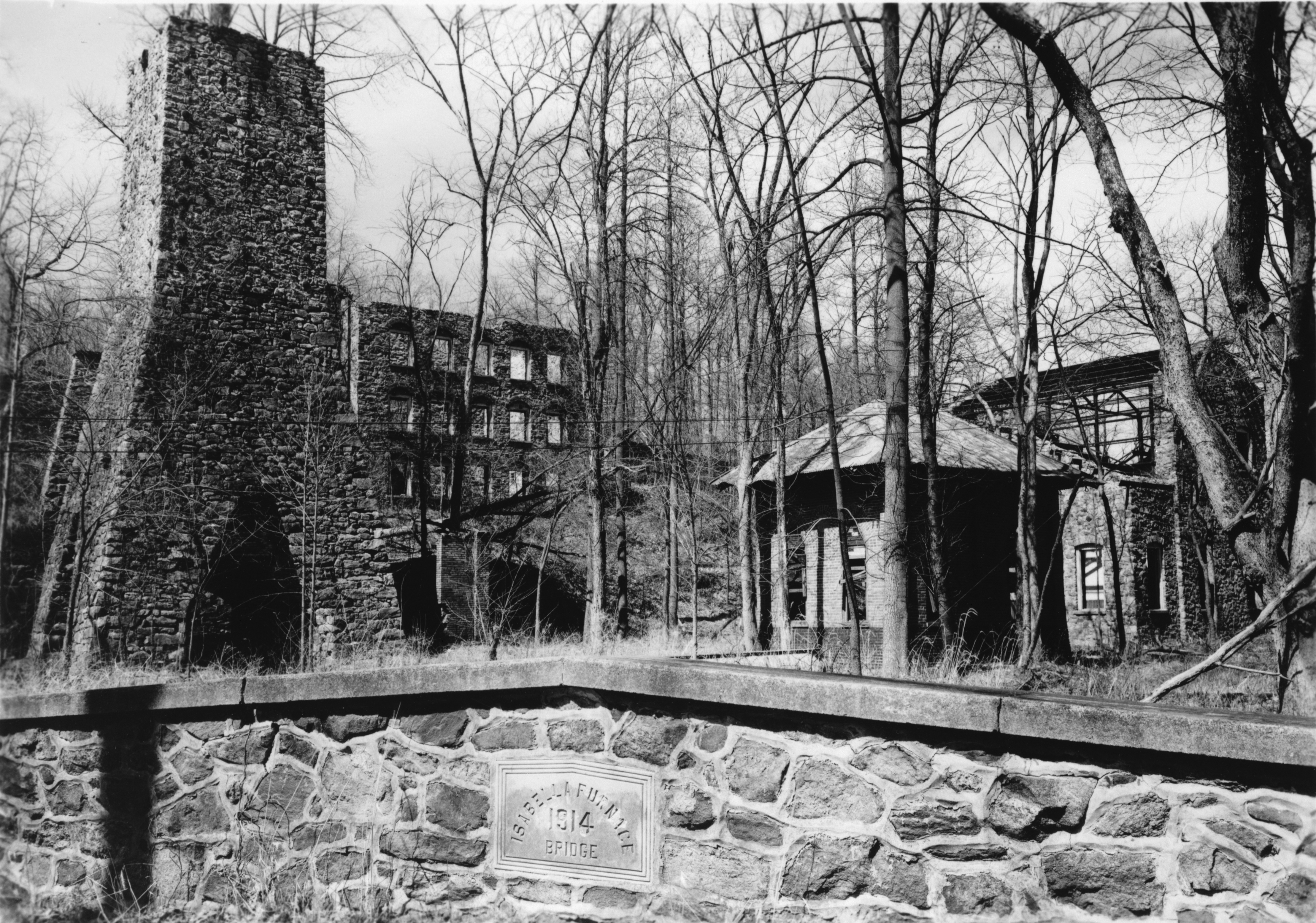 Isabella Furnace — at Bollinger Drive just north of Creek Road, near Brandywine Manor, West Nantmeal Township, Chester County, Pennsylvania. This furnace, erected in 1835, was the last sizable one to be built in Chester County. It ceased operation in 1894, being the last active iron furnace in the County. On the NRHP since September 6, 1991 A Historic American Buildings Survey—HABS image.